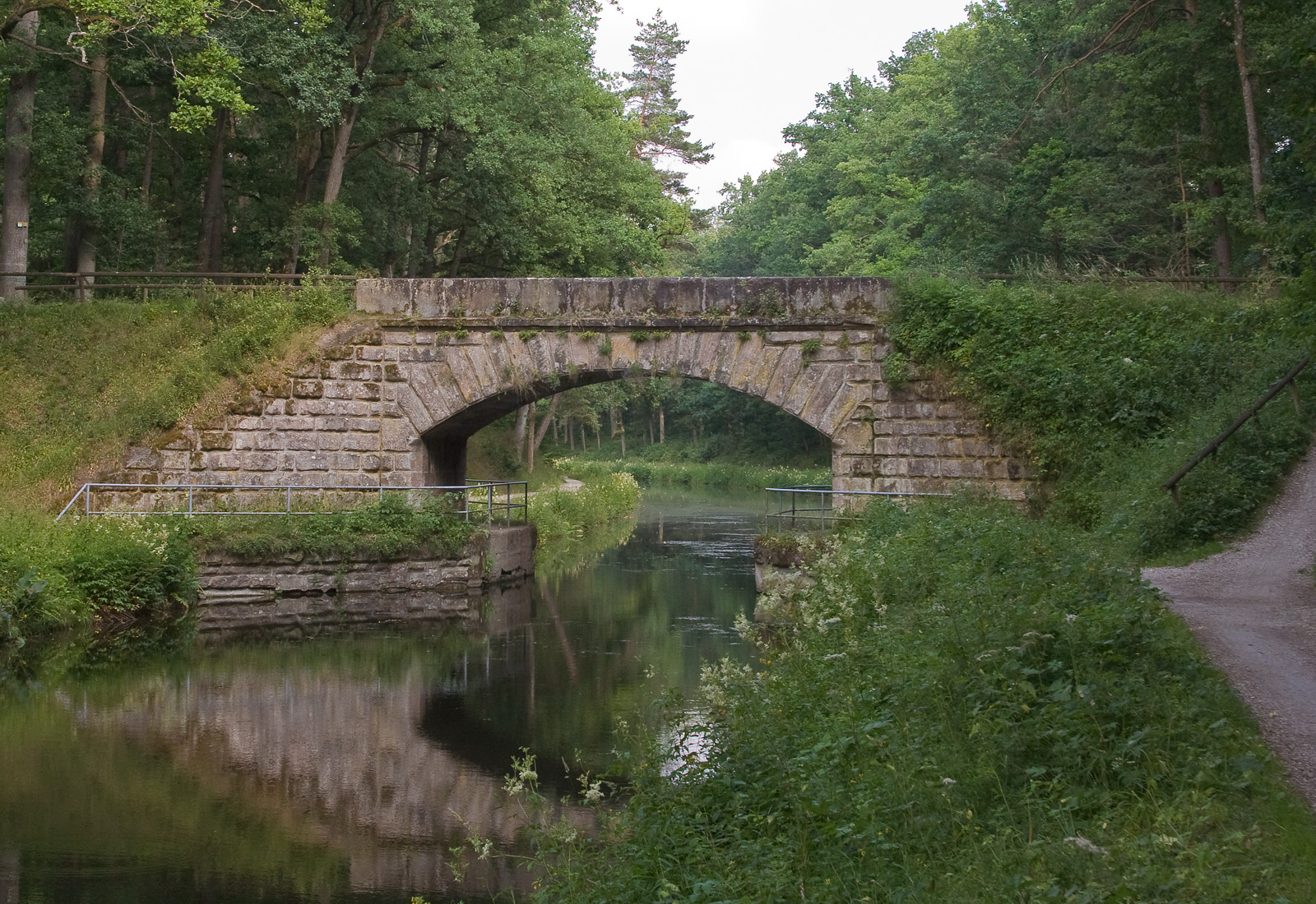 Picture of the Sorger bridge over the Ludwigs Canal near Kleinschwarzenlohe resp. Sorg, taken from East.